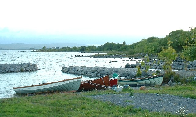 Fishing Boats on Inchiquin, 5 km from Ballynalty, Ireland. Inchiquin is a small island on the east of Lough Corrib and linked to the mainland by causeway. Geographical data: photo taken at grid reference M176465; WGS84: 53:27.7266N 9:14.5045W [53.46211,-9.24174]